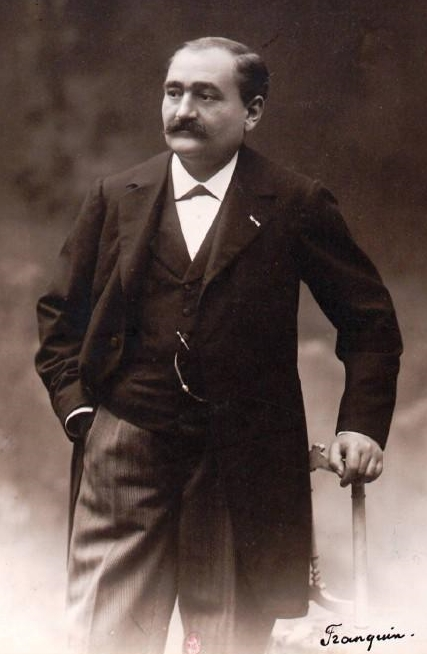 French trumpet player Merri Franquin (1848-1934).